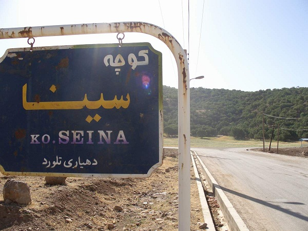 Baazoft District, chahar mahaal o bakhtiari, Iran